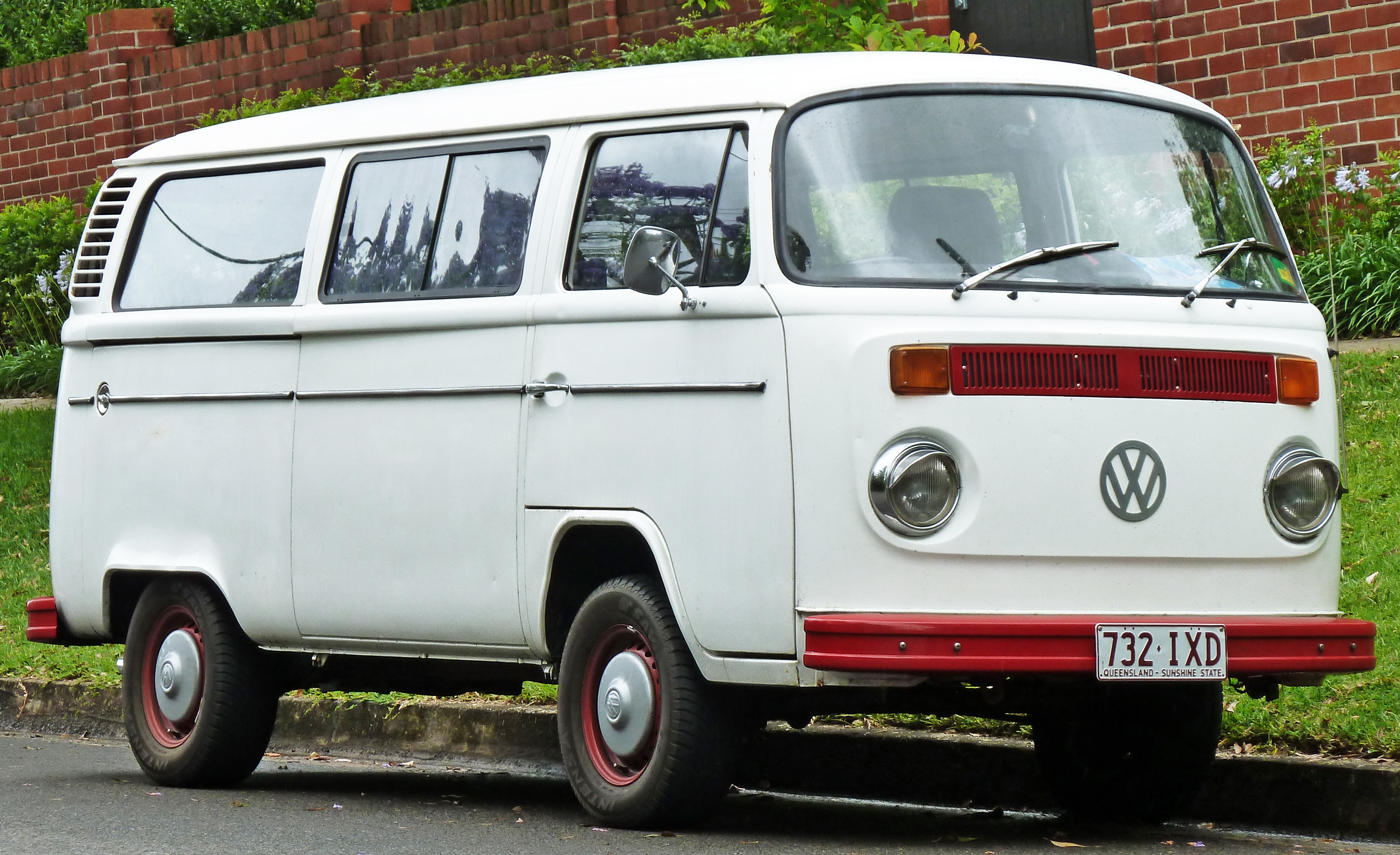 1973–1980 Volkswagen Kombi (T2) van. Photographed in Killara, New South Wales, Australia.